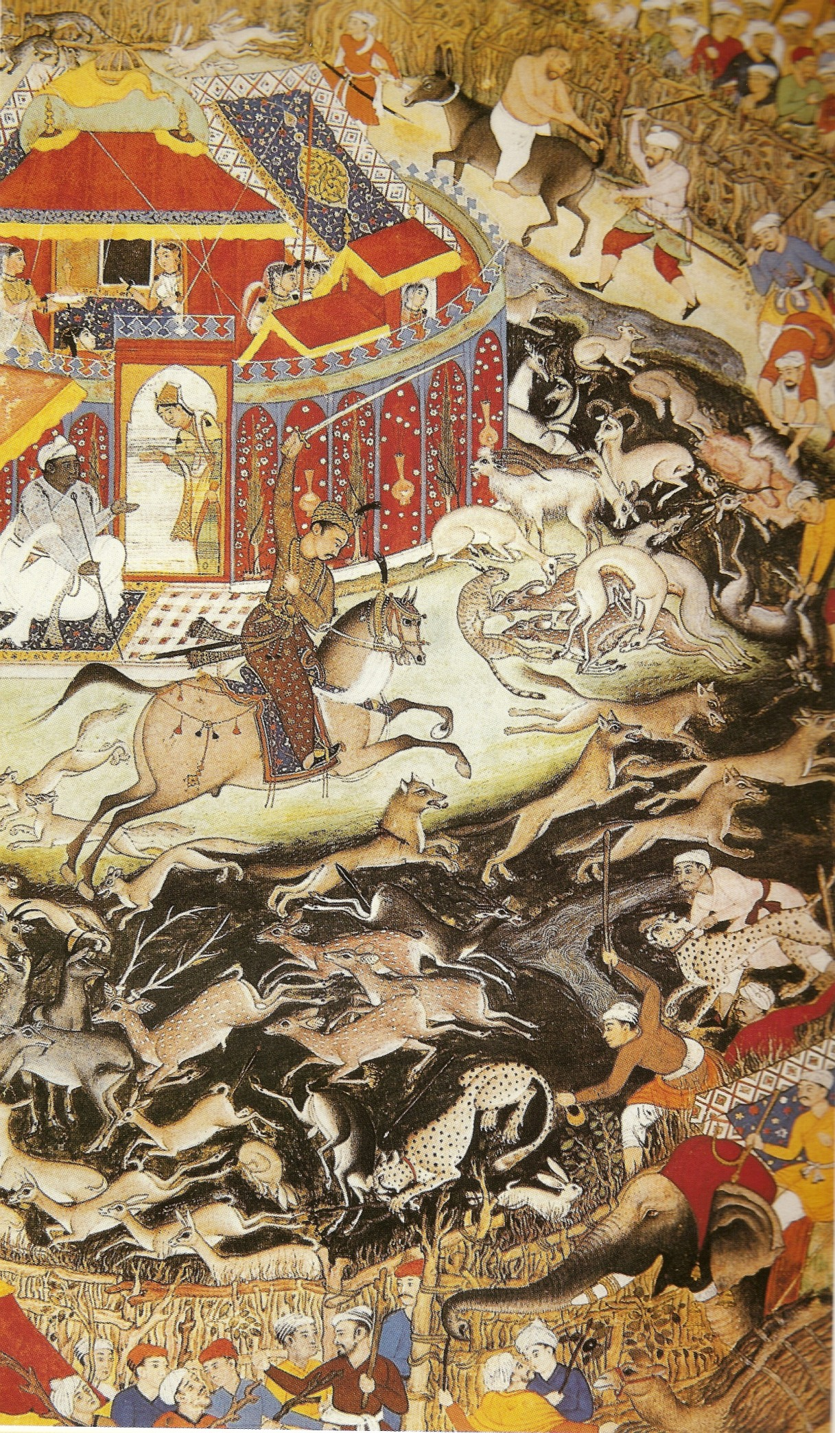 Emperor Akbar Hunting with Cheetahs Scanned by AshLin from pg 16 of Treasures of Natural History (2005) eds A. S. Kothari & B. F. Chhapgar, Bombay Natural History Society and Oxford University Press, Mumbai.